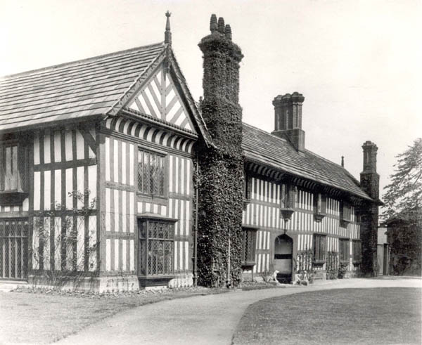 The original Agecroft Hall in Pendlebury, Lancashire before it became delelict and was moved to the US